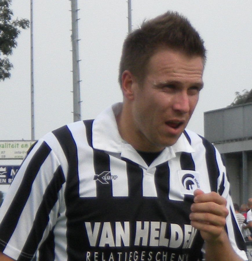 Freek Thoone after the friendly between Achilles '29 and JVC Cuijk